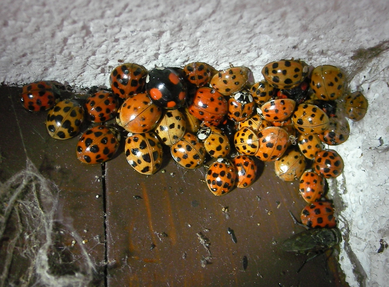 Harmonia axyridis